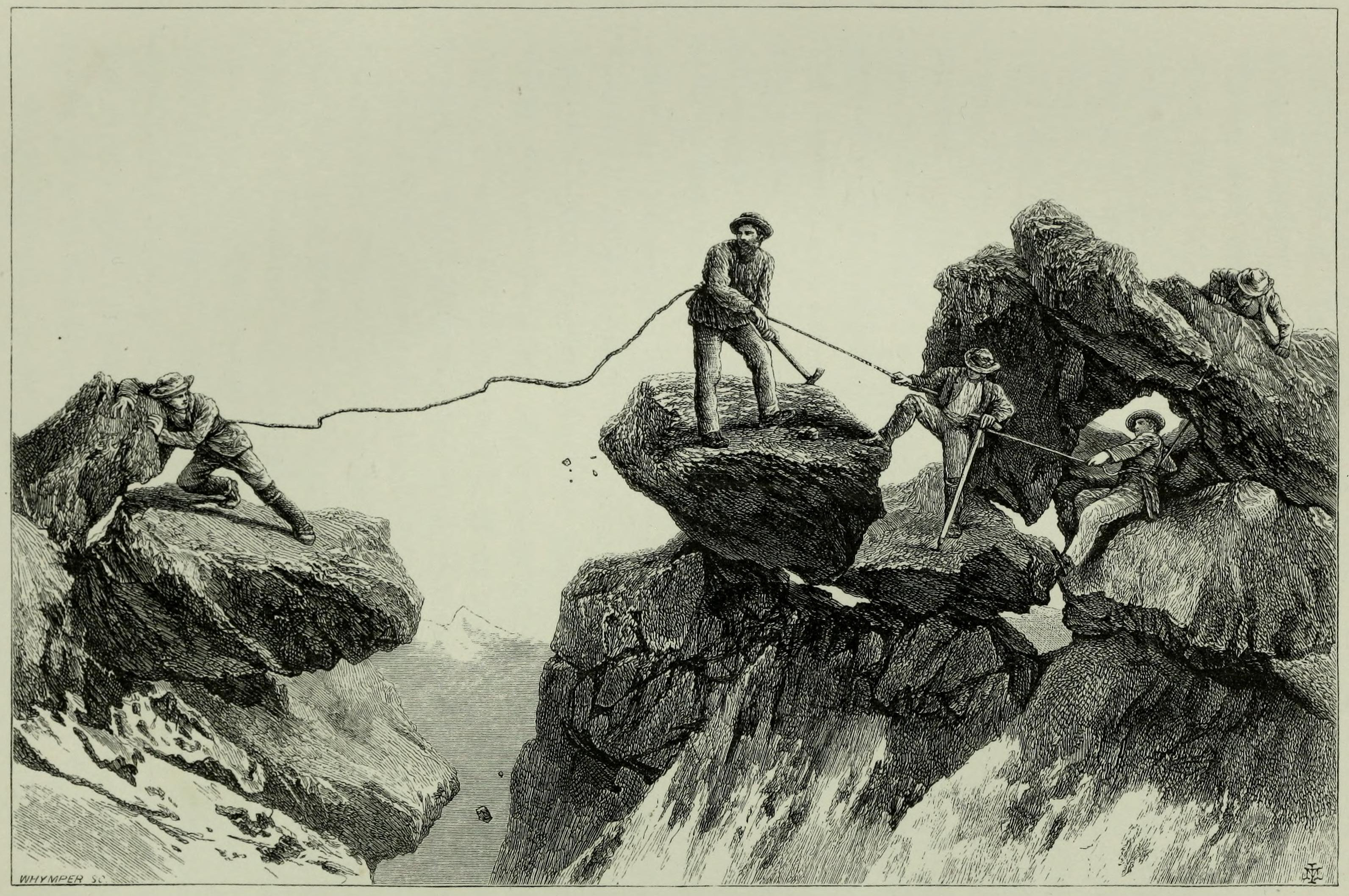 Image on page 260 of Scrambles amongst the Alps